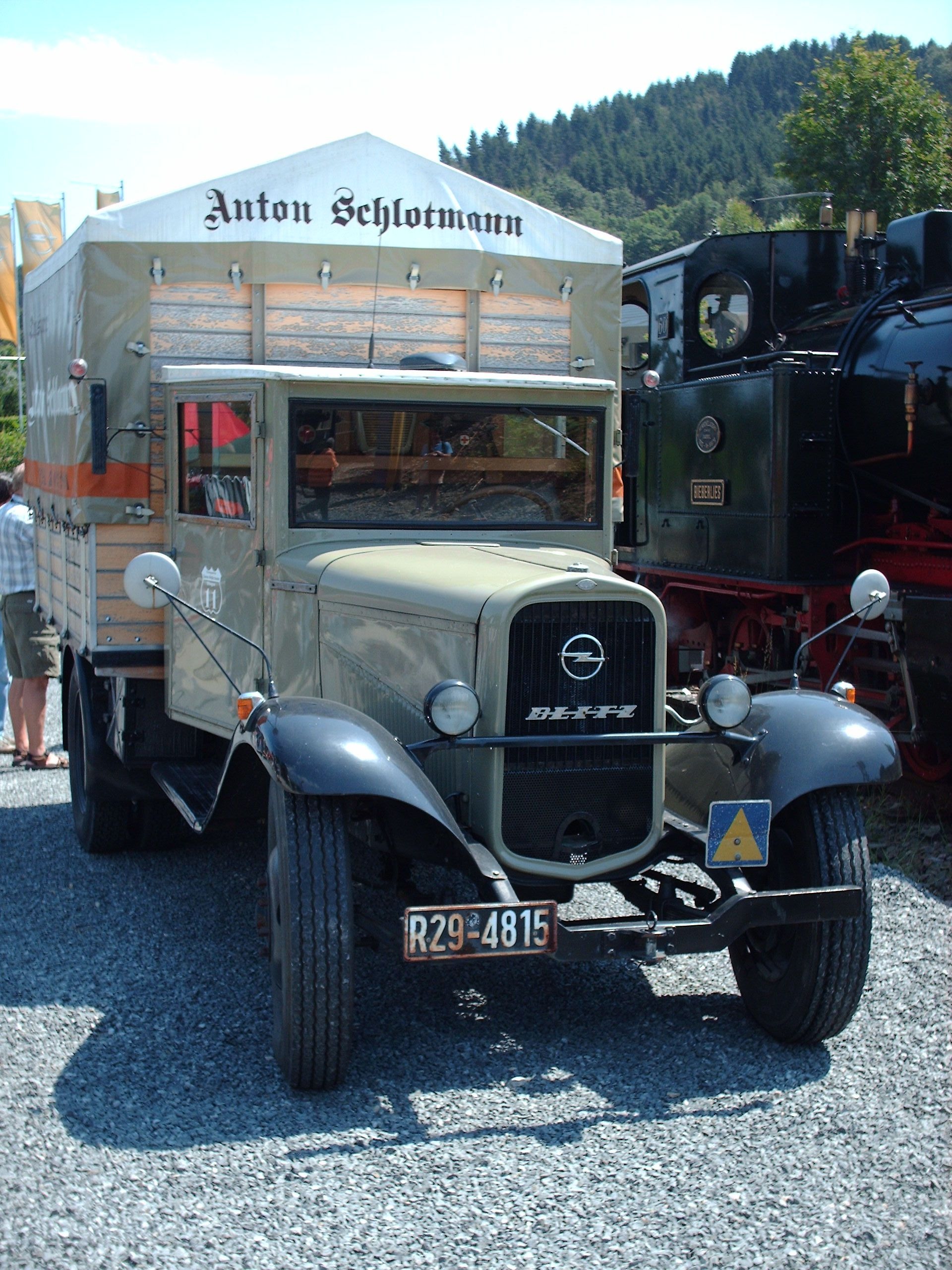 Opel Blitz truck, built 1934. The current (since 1965) Opel logo replaced the original one when the truck was renovated, Herscheid, Germany check usage